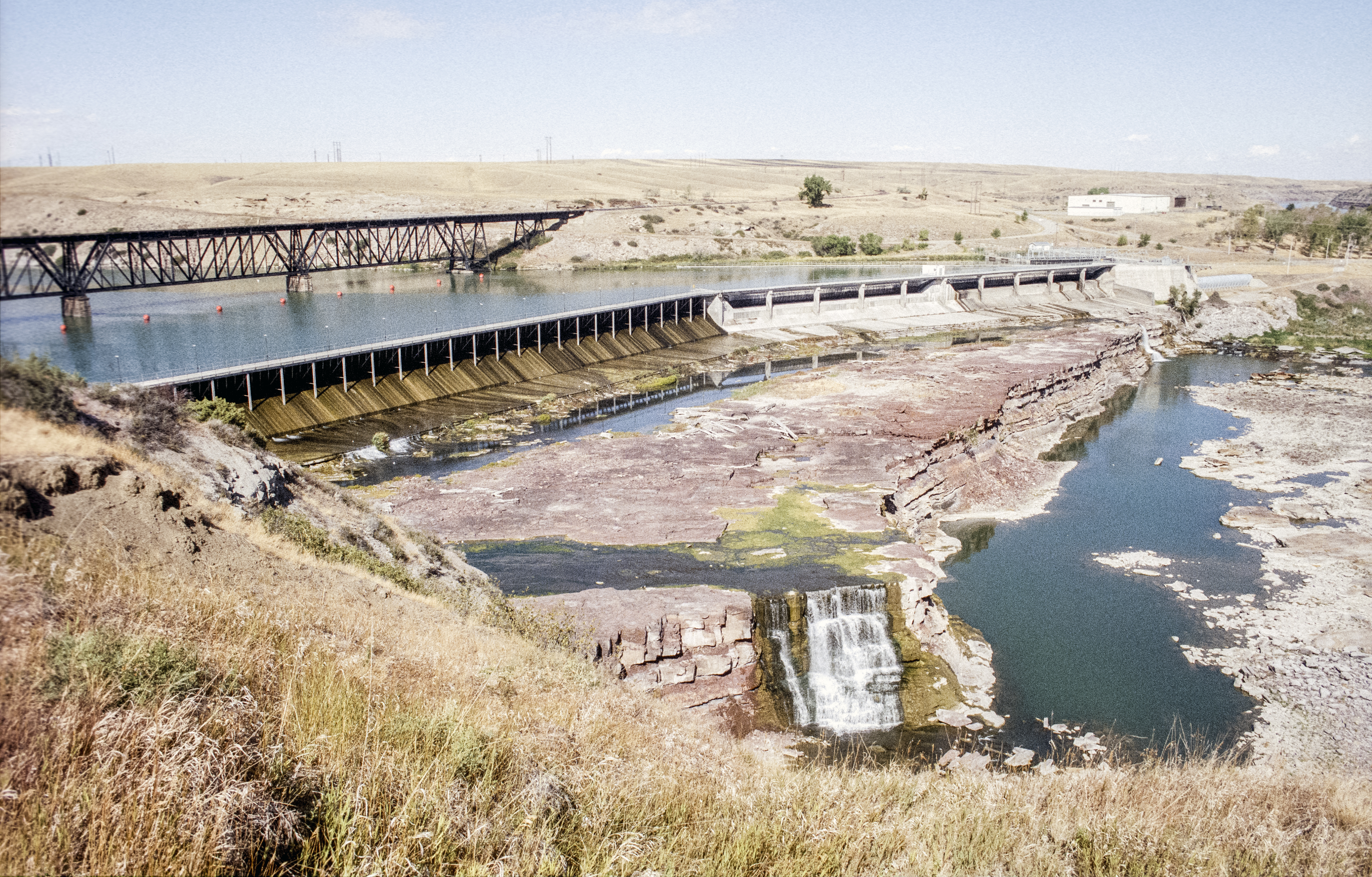 Rainbow Falls and Rainbow Dam on the Missouri River, Great Falls, Montana, USA. Scanned Fujicolor negative.